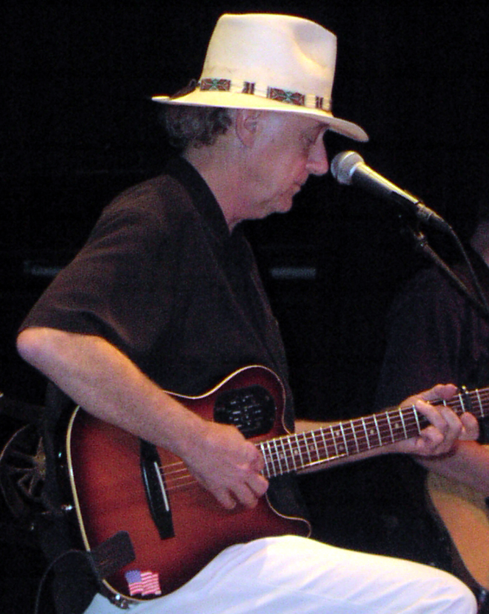 2002, Saratoga Springs, NY Jerry Jeff Walker Saratoga Music Hall